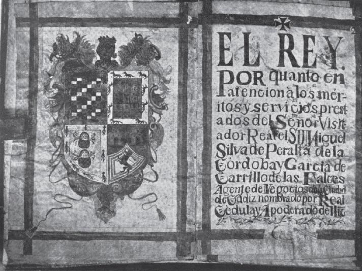 Cover of Royal cedula (decree) dated 20 December 1748. Known forgery that was part of the Peralta land grant claimed by James Addison Reavis